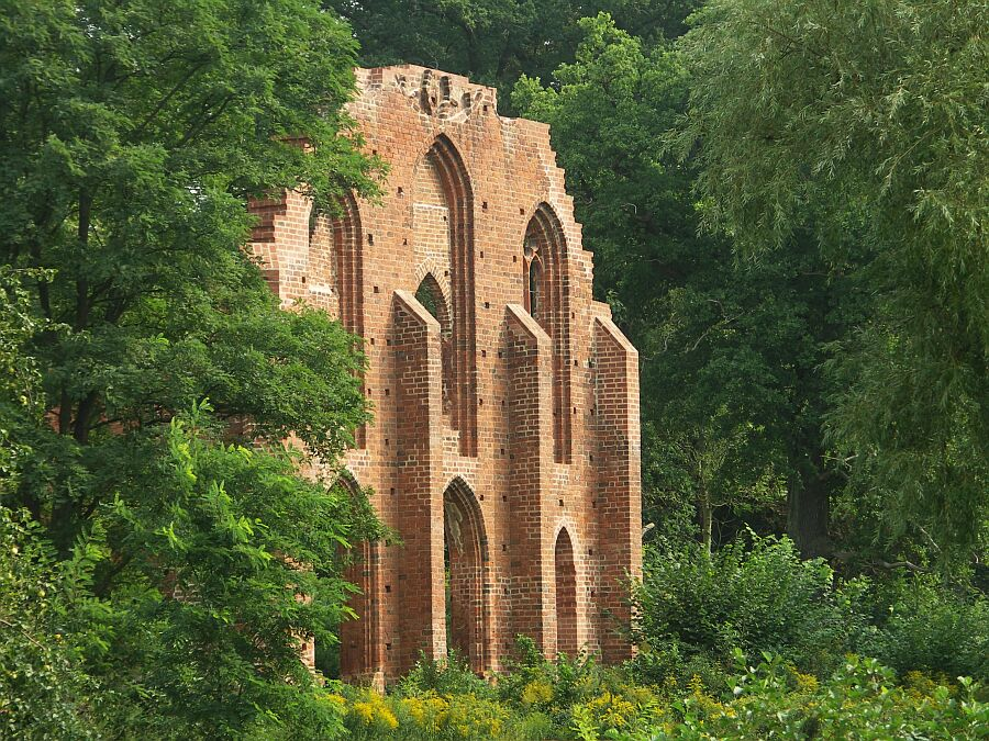 Ruin of monastery Boitzenburg, Germany